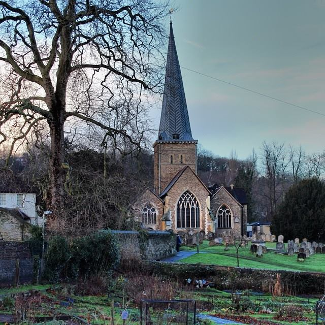 Church of St. Peter & St. Paul, Godalming, Surrey, UK